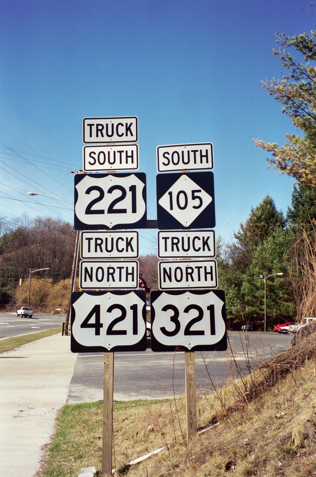 Picture taken back in 2001 of NC 105 with three different Truck Routes signs overlapping it (U.S. Routes 221, 321, 421).